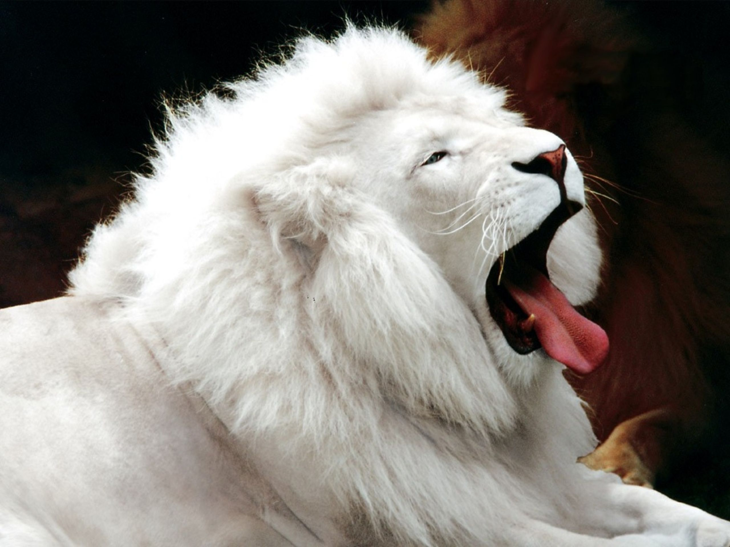 Katy Perry - Rise